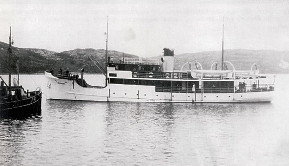 SS Jäämeri (1939).